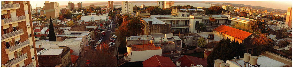 Paraná, Entre Ríos, Argentina. Colegio Nacional D. F. Sarmiento in the background.